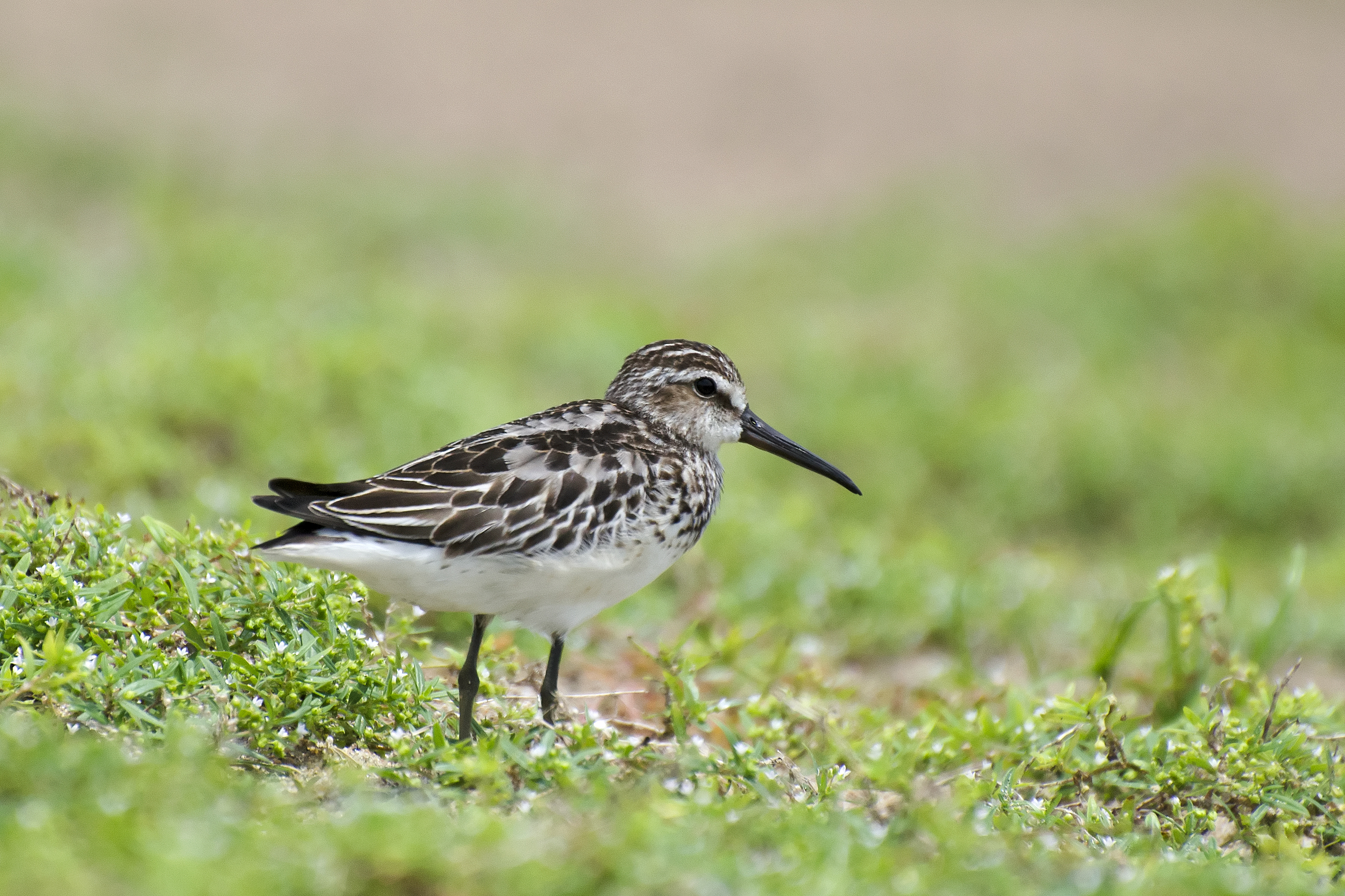 Broad billed sandpiper (Limicola falcinellus) From Chavakkad Beach,Kerala,India.